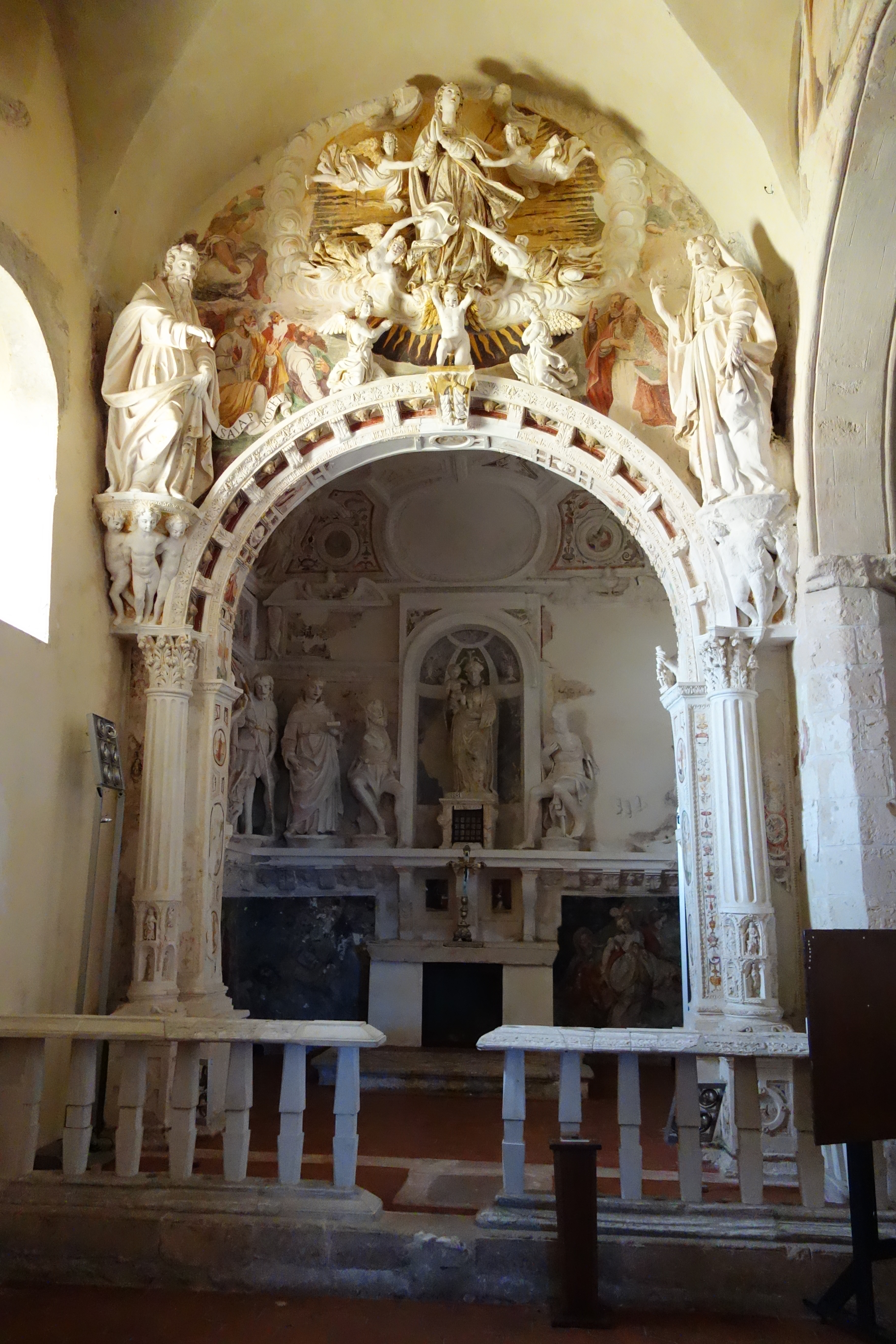 Chapel of Our Lady of the Chain. Stucco and frescoes by Antonino Ferraro da Giuliana, ca 1590. Madonna by Giacomo Gagini.